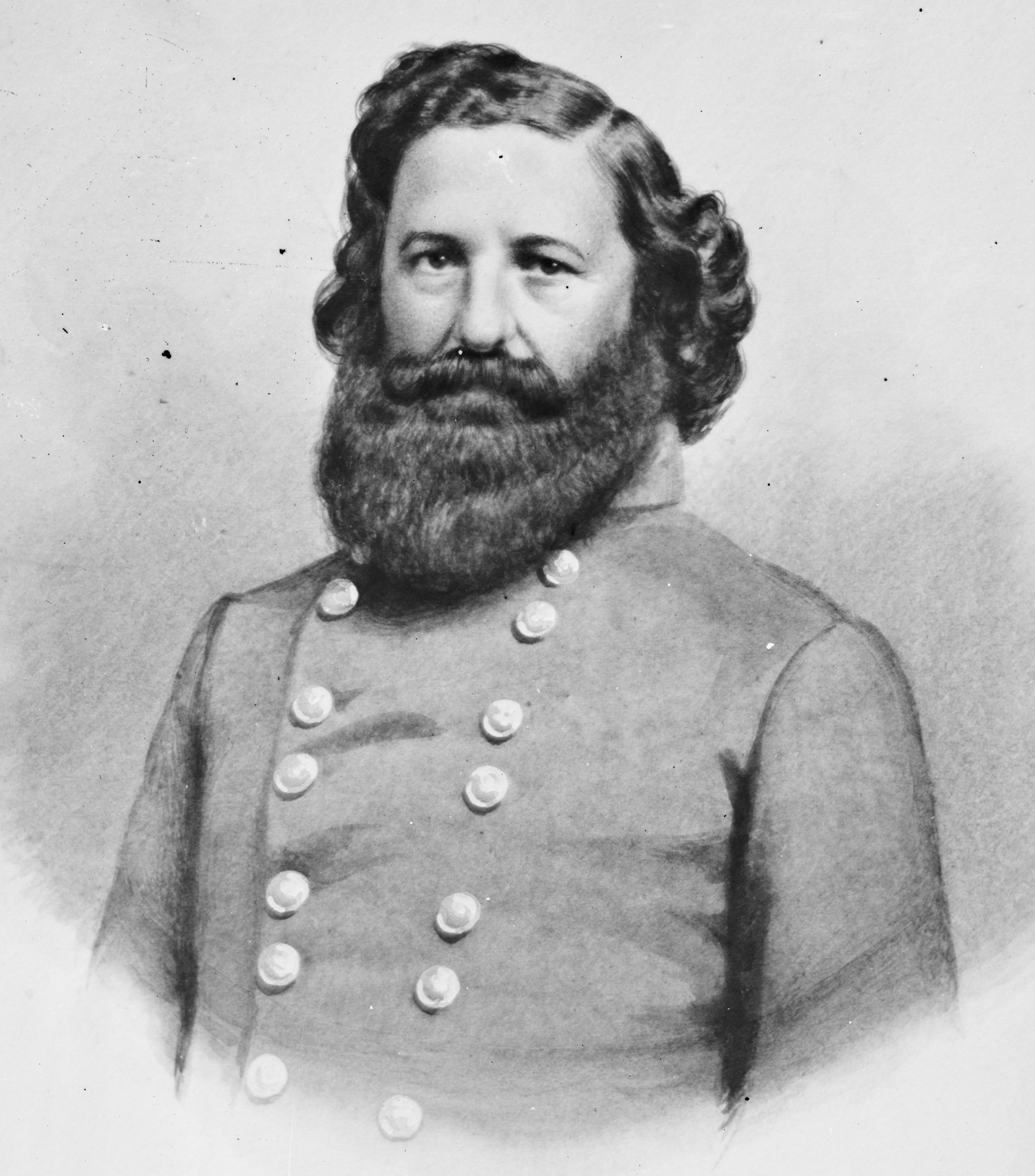 Title: McLaws Physical description: 1 negative